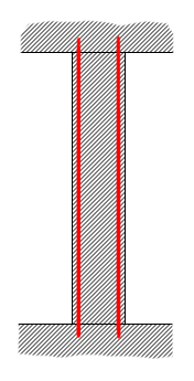 Reinforeced condrete column scheme